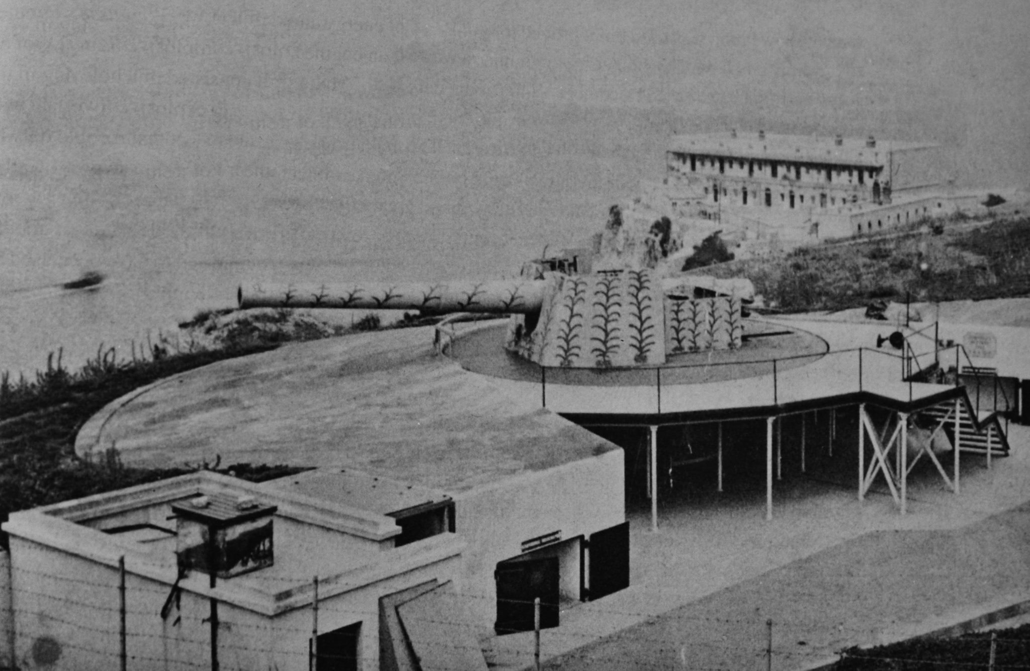 Edward VII Battery at Windmill Hill in Gibraltar, circa 1904 with a 9.2 inch breech-loader